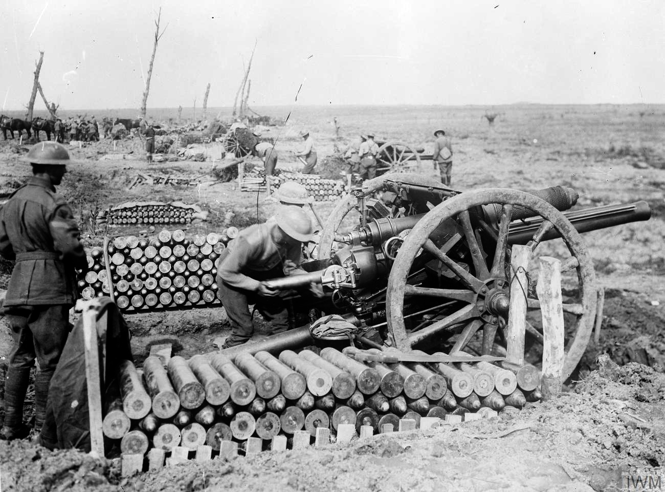 The 14th Battery of Australian Field Artillery, 5th Field Artillery Brigade, 2nd Division, in action near Bellewaarde Lake, in the Ypres Sector. Alongside this position was the famous 'Corduroy', a track, the only one possible, used by all troops moving forward. Completely encircling Bellewaarde Lake, it was continuously under shellfire, and many casualties were sustained by the Australians in its vicinity. Identified, left to right, foreground: Corporal Nixon; Gnr (Gnr) Fosberg (Forsberg?), placing shell in gun (died of wounds a few days after this photograph was taken. Unable to verify this name on the First World War Nominal Roll); Gnr T C Roberts (partially obscured); 7090 Sergeant Richard (Rickard), fitter (extreme right with back to camera); 28314 Gnr J M Bruton (in background, in line with rows of shells, wearing shorts). Place made: Western Front: Western Front (Belgium), Menin Road Area Bellewaarde Comment : They are loading an 18 pounder field gun. See Battle of Polygon Wood.